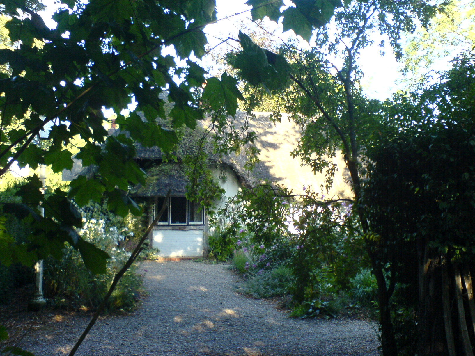 Enid Blyton's House in Bourne End, Buckinghamshire, UK